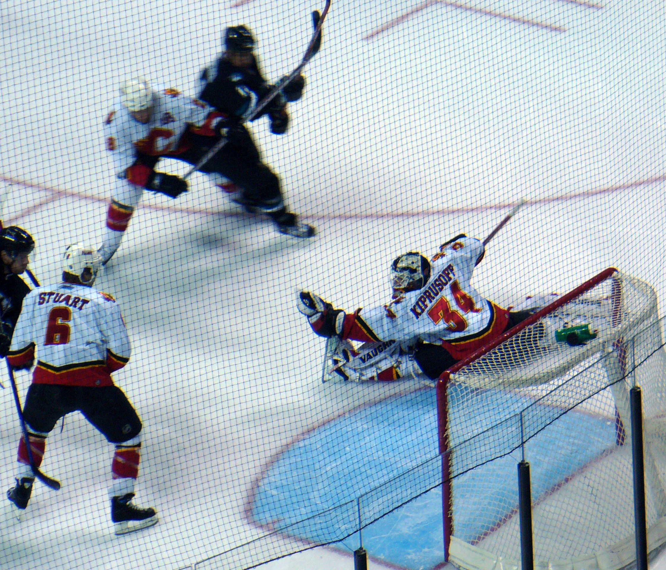 Finnish ice-hockey goalder Miikka Kiprusoff make a save in game versus San Jose Sharks